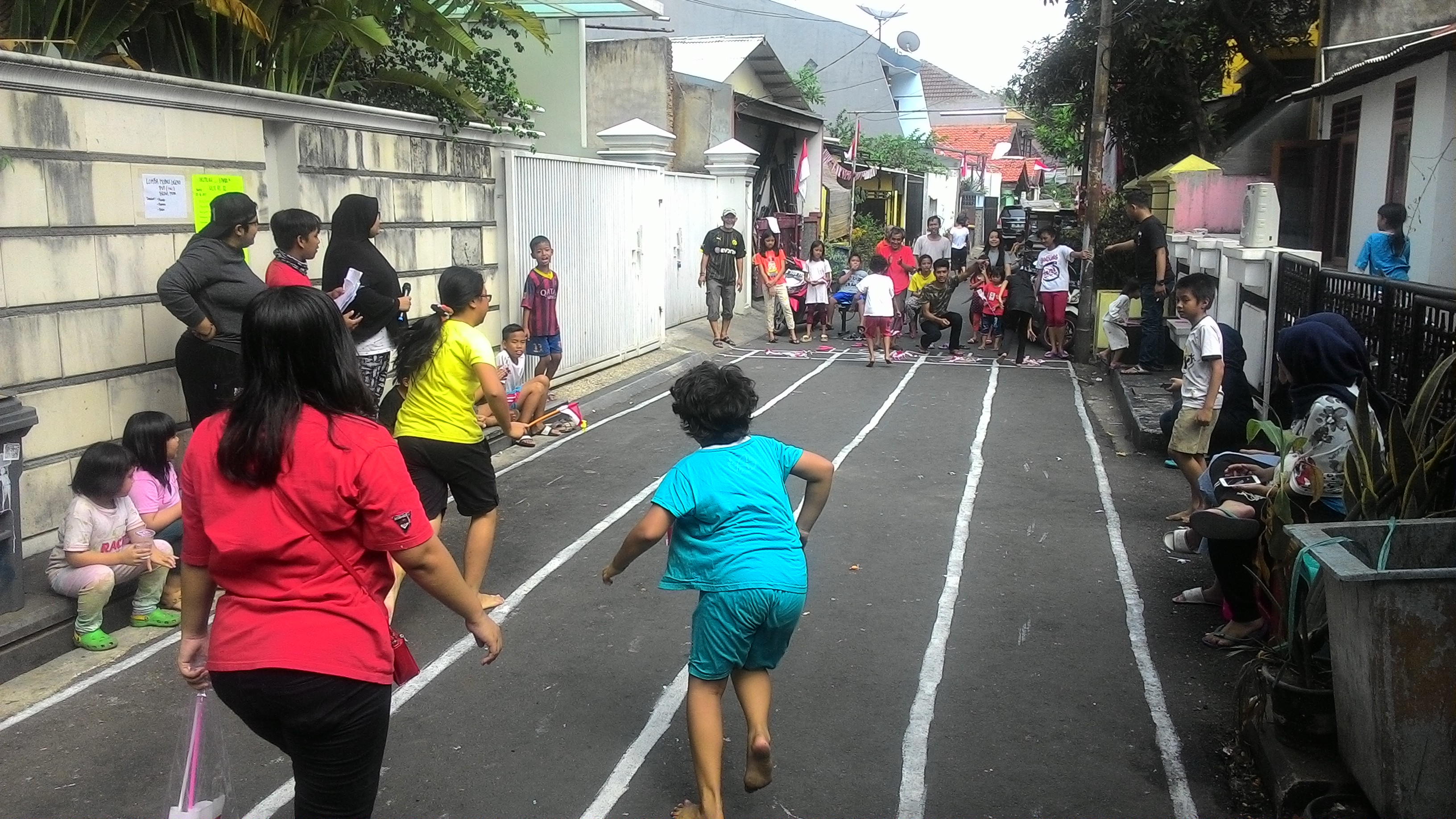 Games and competitions, commemorating Indonesian Independence Day